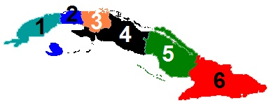 Cuban Provinces to 1976